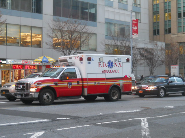 FDNY Ambulance #312 on Jay Street in Downtown Brooklyn